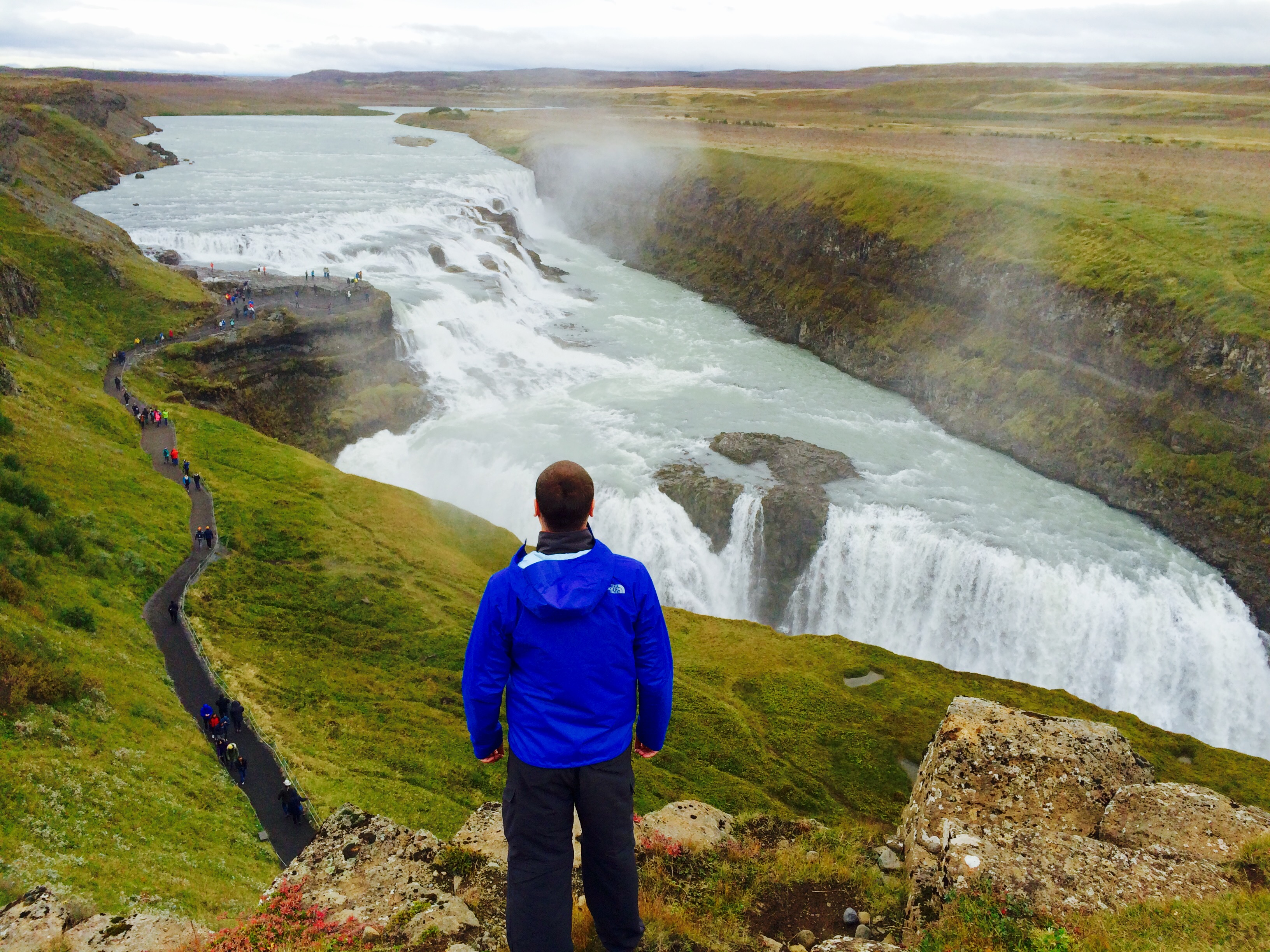 Gullfoss, an iconic waterfall of Iceland.jpg